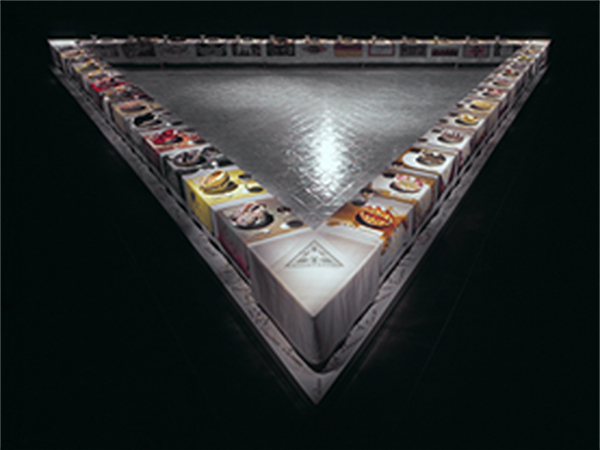 The Dinner Party, art installation by Judy Chicago, installed at the Elizabeth A Sackler Center for Feminist Art in the Brooklyn Museum in Brooklyn, NY. Artist: Judy Chicago